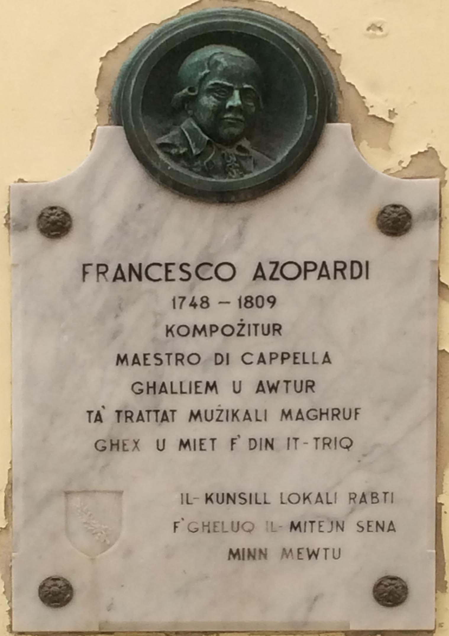 Rabat